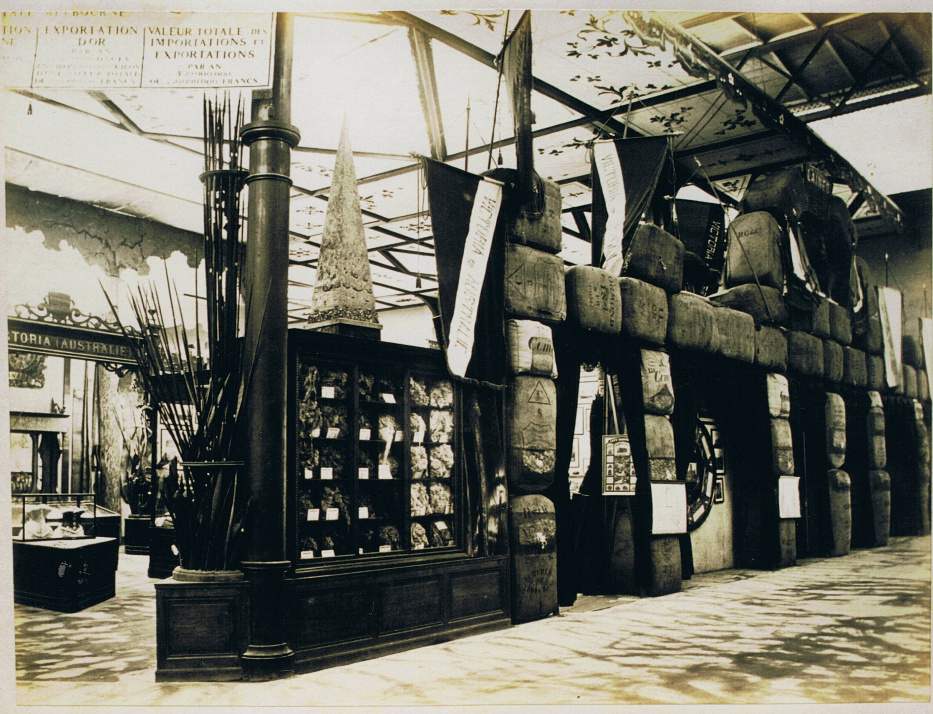 scan of a photo (R. de Salis 2009) of an 1867 photo in an album belonging to William De Salis(he was one of the stand's commissioners).Rodolph (talk) 22:47, 30 November 2009 (UTC)